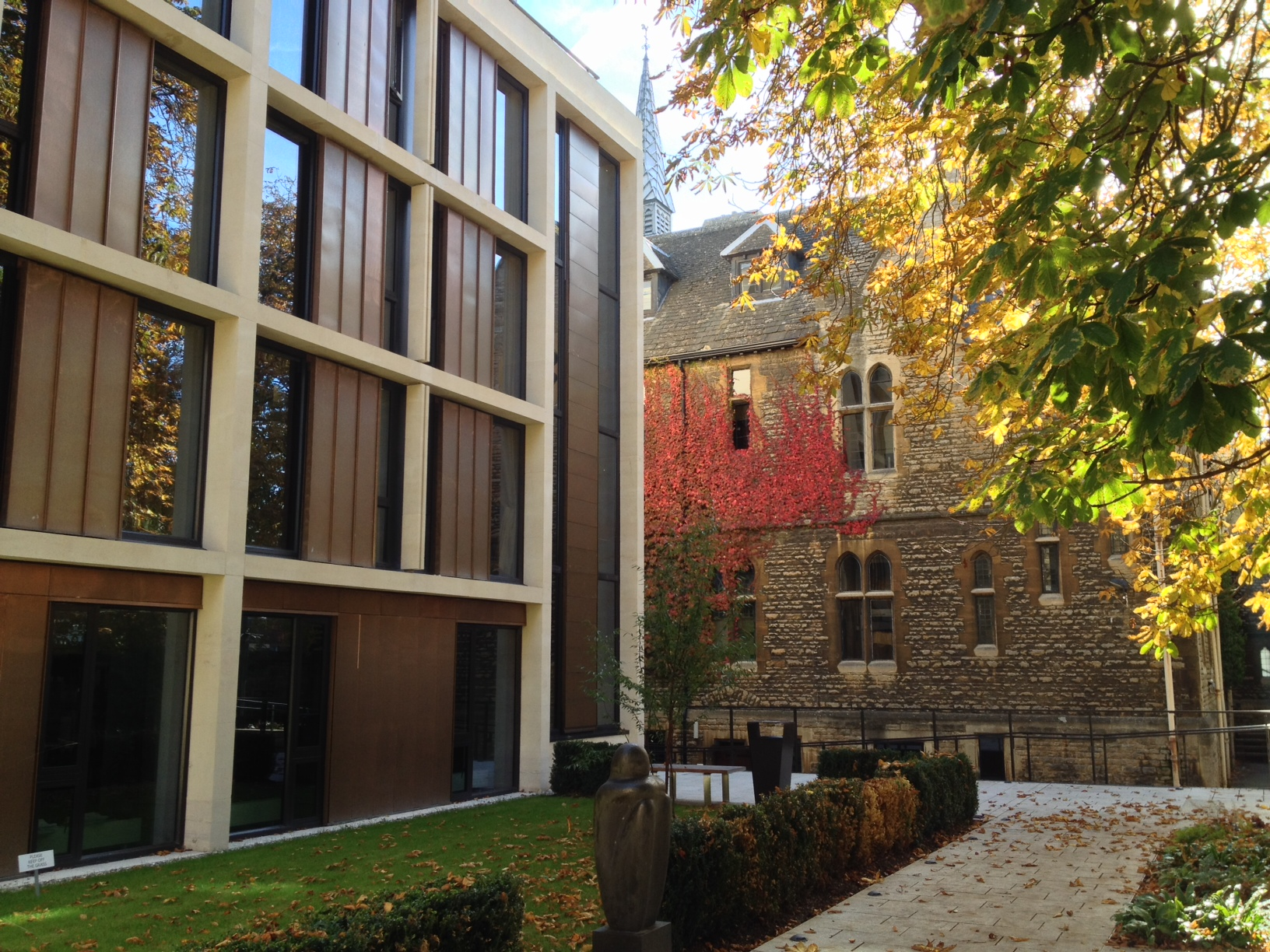 St Antony's College Oxford